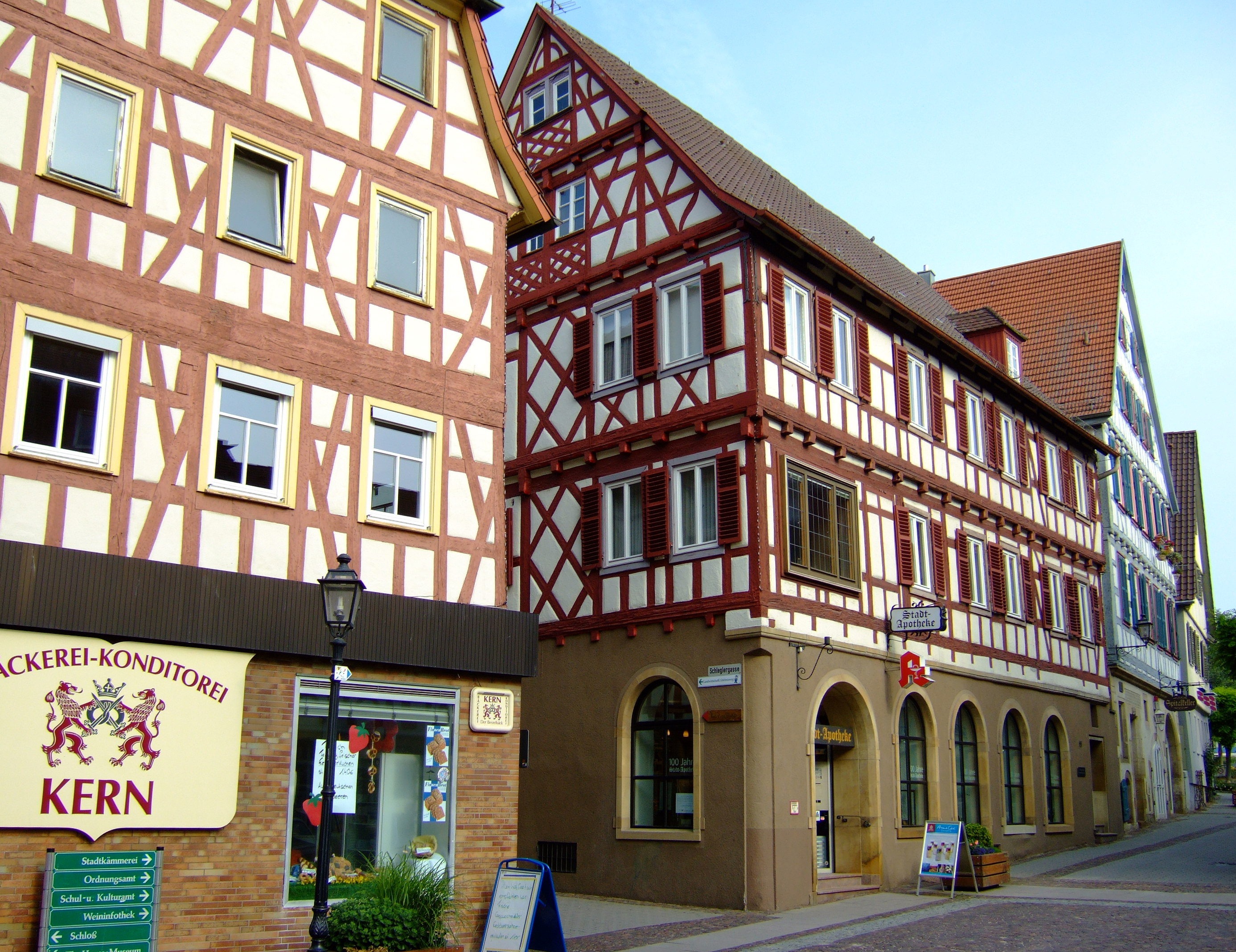 half-timbered houses near the town hall (in the middle the "Stadt-Apotheke"), Brackenheim/Germany, by J. Köhler - 2007